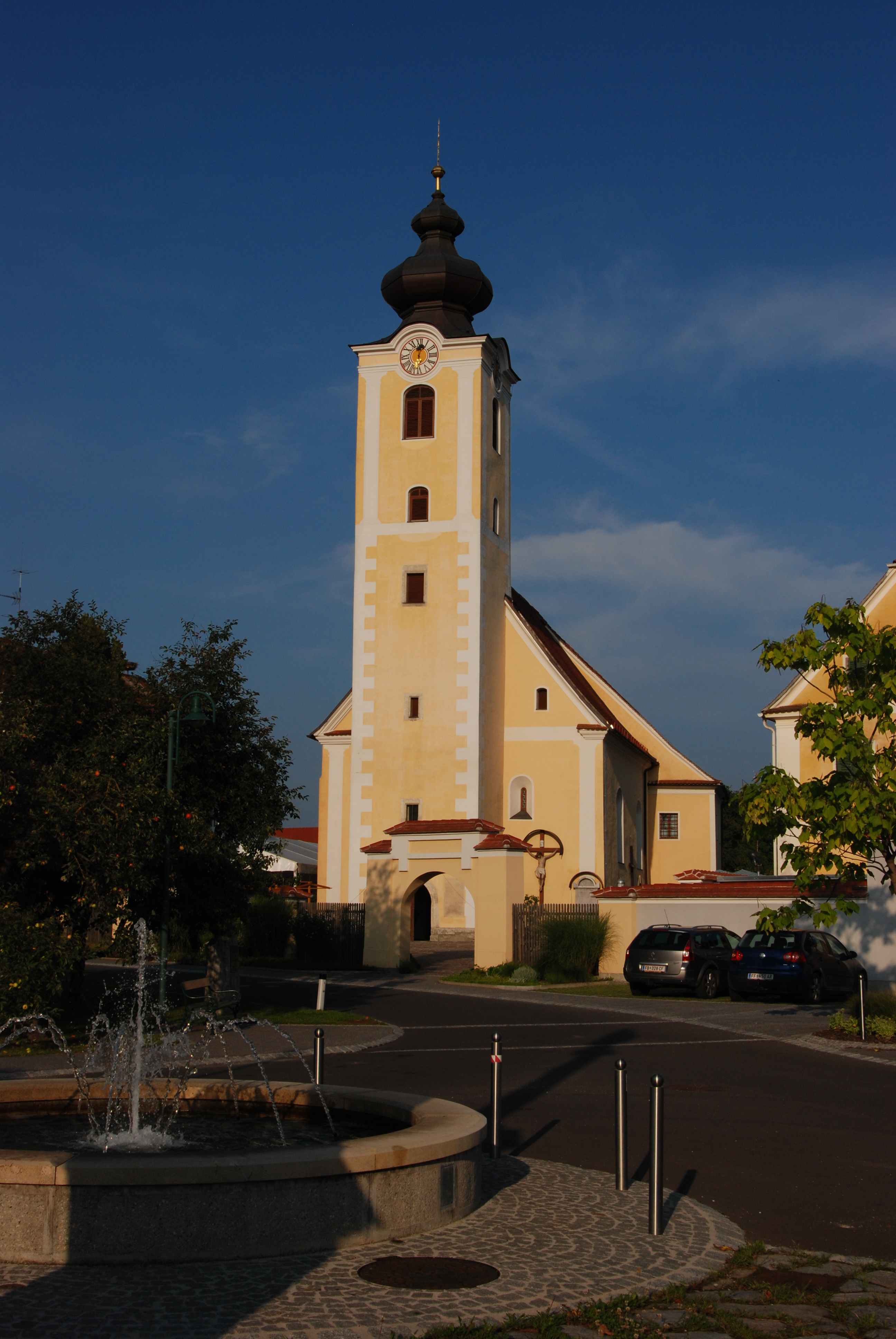 Pfarrkirche Altenmarkt